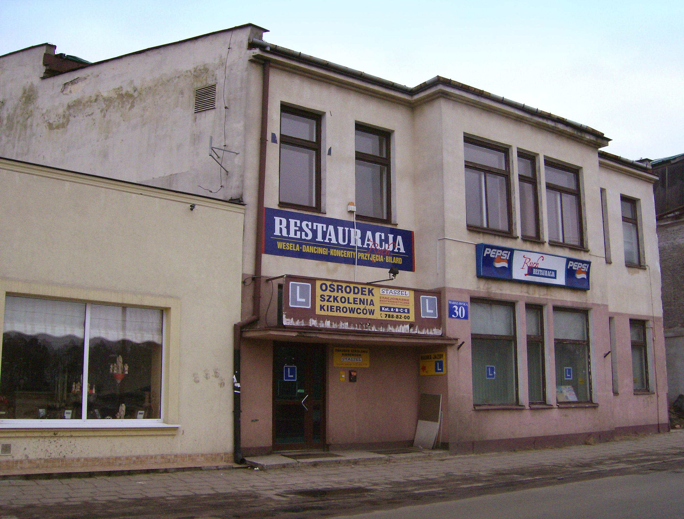 The former Promyk movie theater in Otwock, Poland. Note: despite the file name, this was NOT run by the family of Calel Perechodnik. My faulty research is to blame. Taken by ProhibitOnions, 2008.